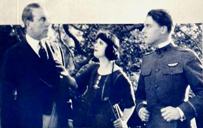 Still from the American film The Thirtieth Piece of Silver (1920) with King Baggot, Margarita Fischer, and Forrest Stanley, cropped at top for use in an ad on page 4104 of the May 15, 1920 Motion Picture News.